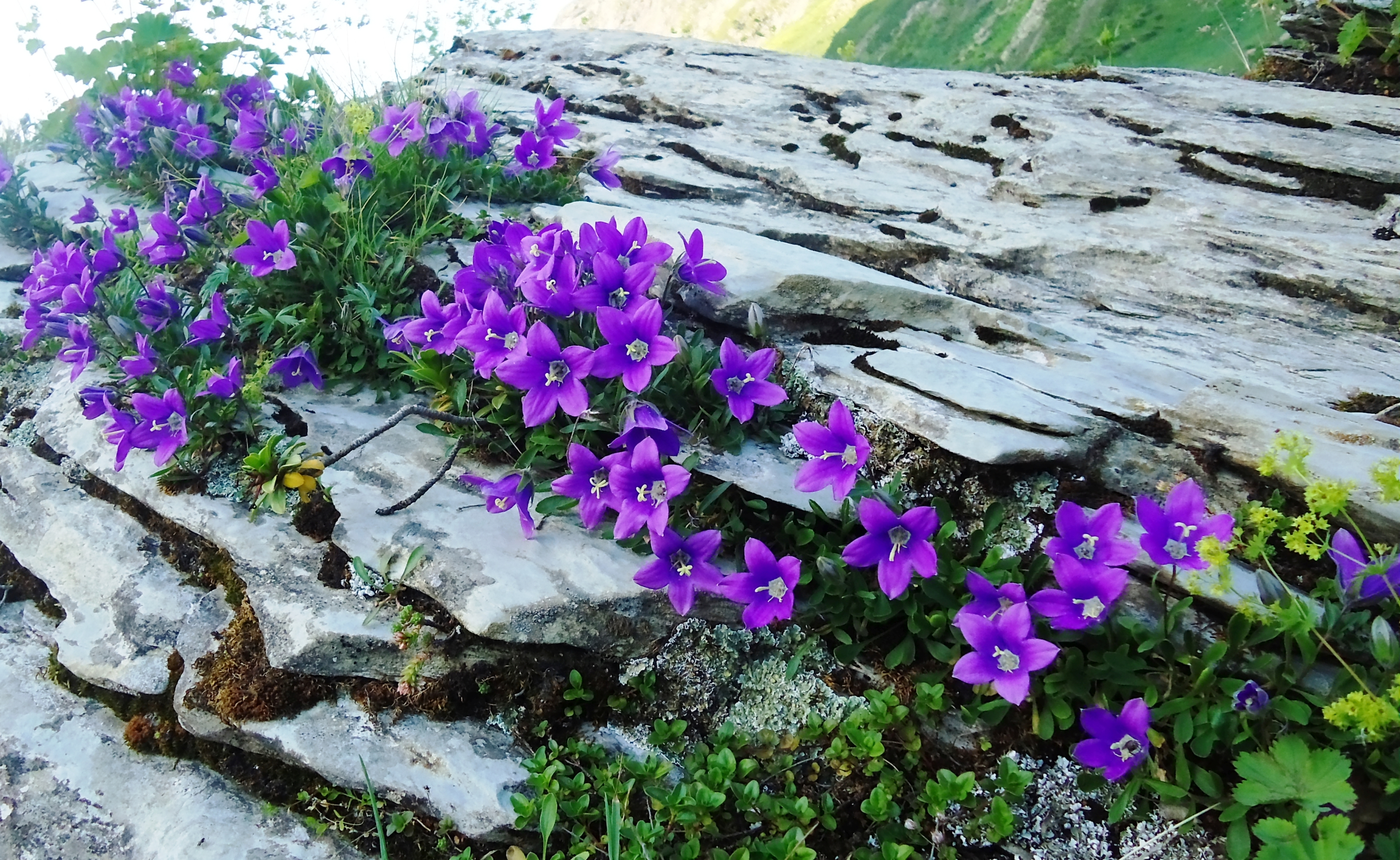 Bellflower Campanula aucheri. The photo is taken on Aibga Ridge near Krasnaya Polyana, Sochi.